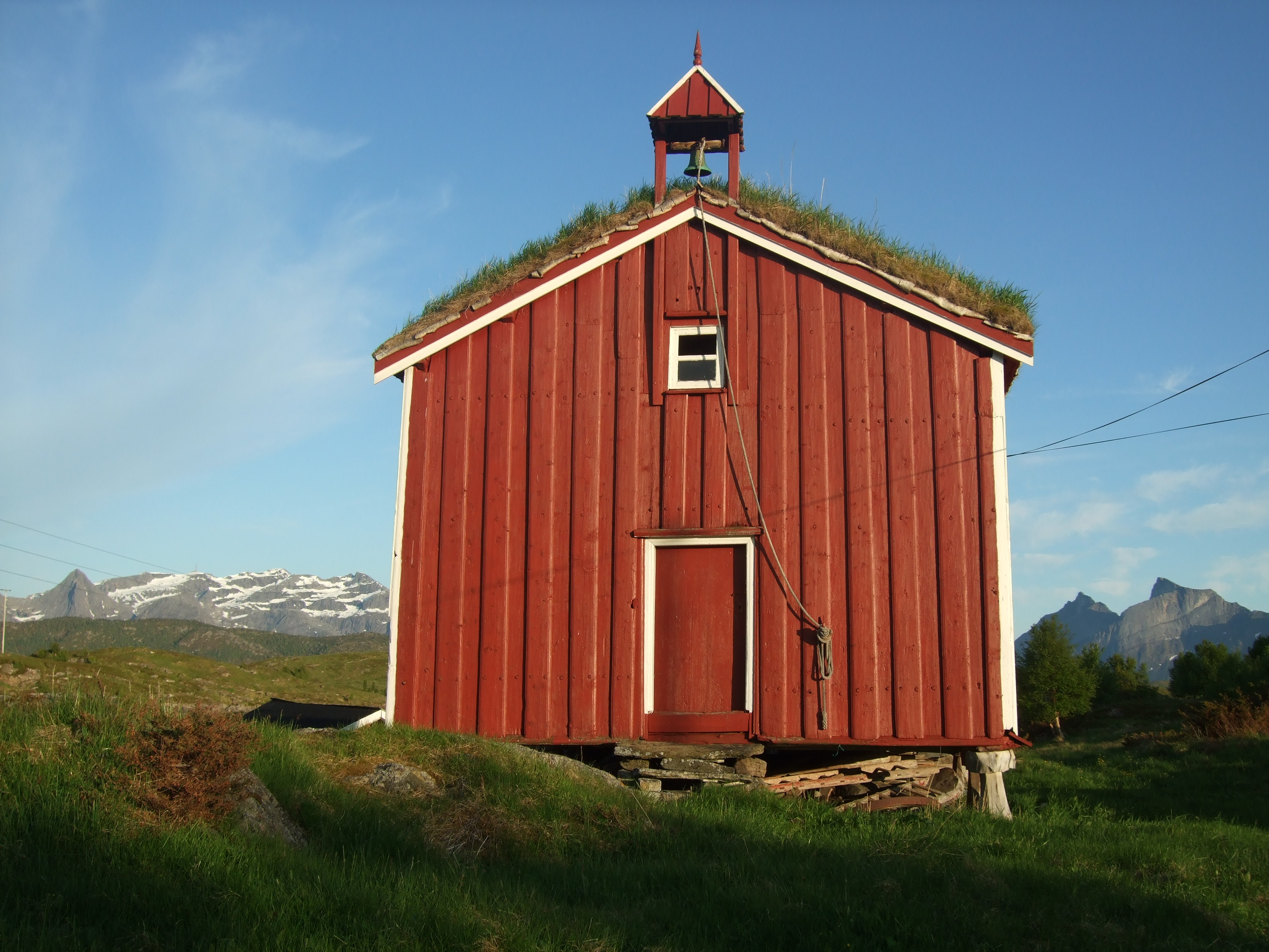 18th century outbuilding for storing food, located on the island Løvøya in Steigen. In the background mountains Småtindan (left) and Skotstindan (right)